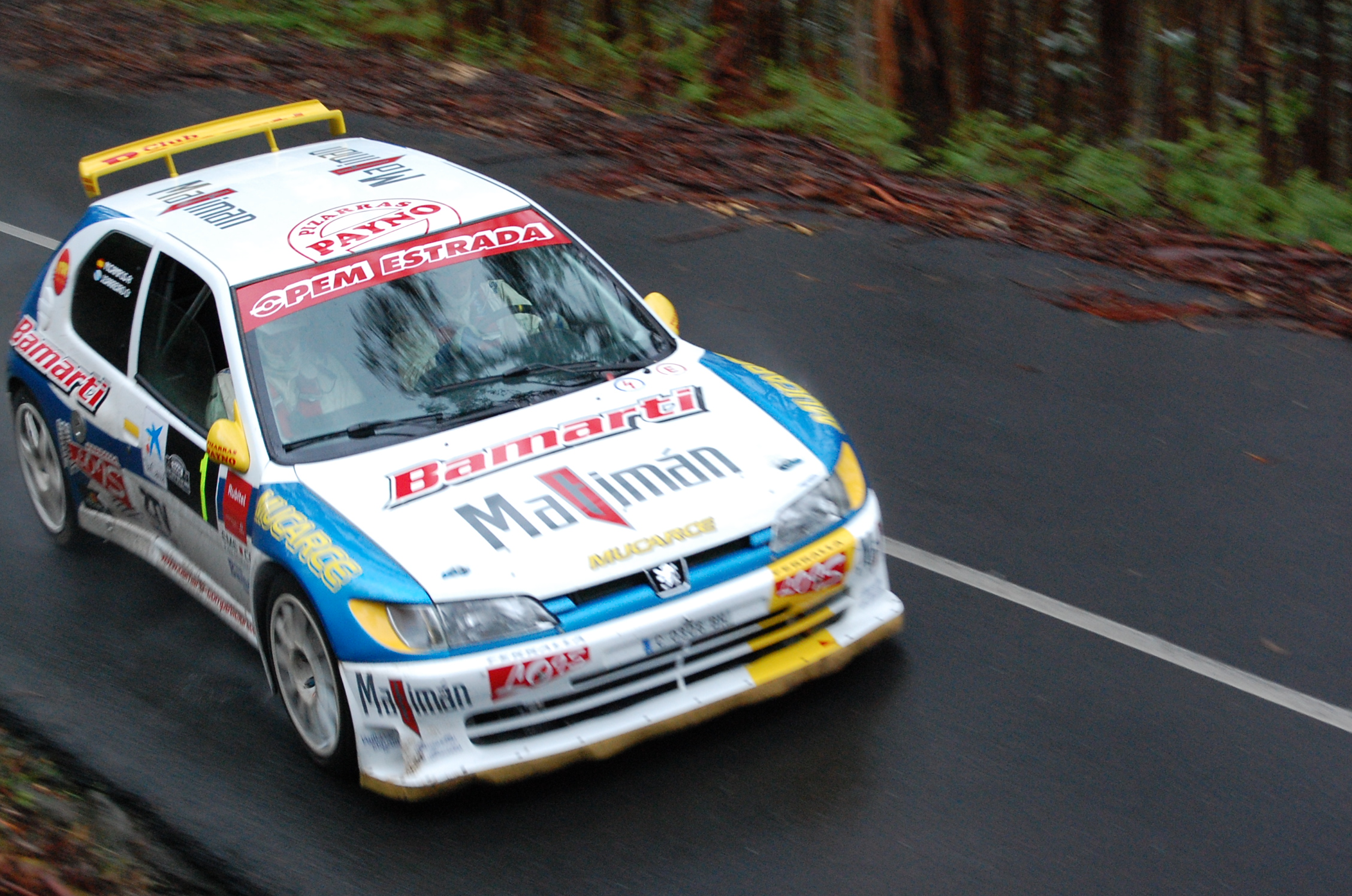 Peugeot 306 Kit Car. Jose Manuel Martinez Barreiro, "Bamarti". Spanish rally driver.